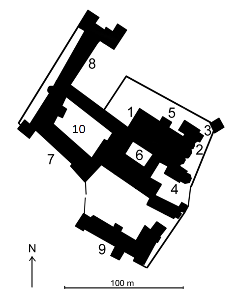 Floor plan of Millstatt Abbey near Spittal an der Drau / Carinthia / Austria / EU. Simplified following Katasterplan in Dehio Kärnten, 1981.